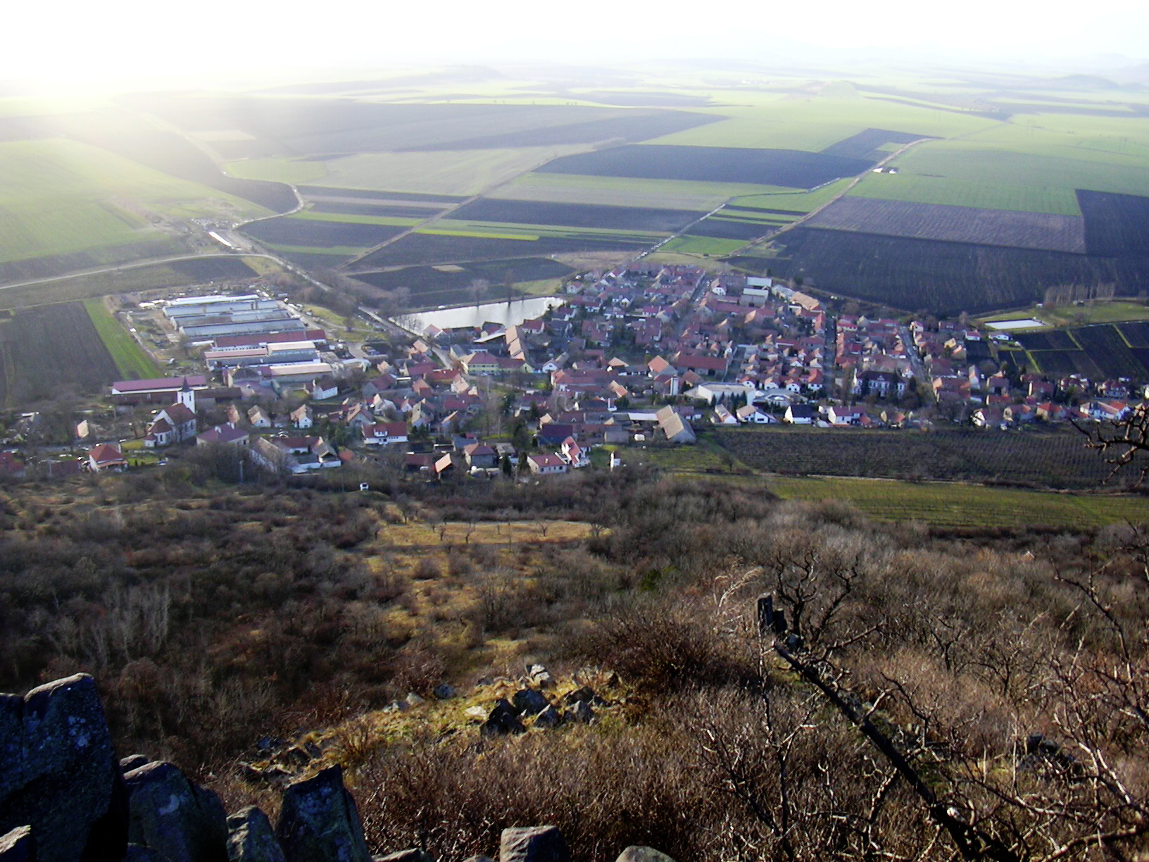 Village of Klapý near Libochovice, Czech Republic, as seen from Hazmburk hill. A view towards the west. 31. prosince 2006 vyfotografoval Miraceti